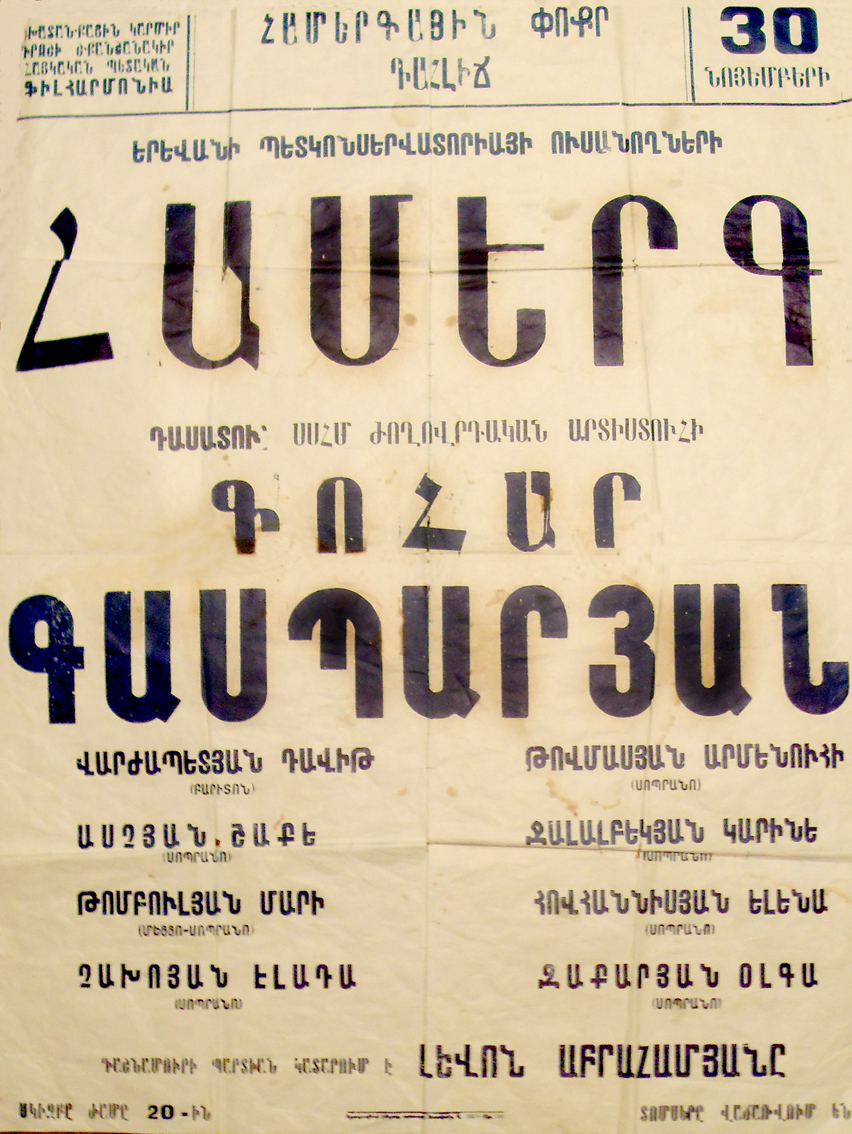 Gohar Gasparyan - Poster, 1969